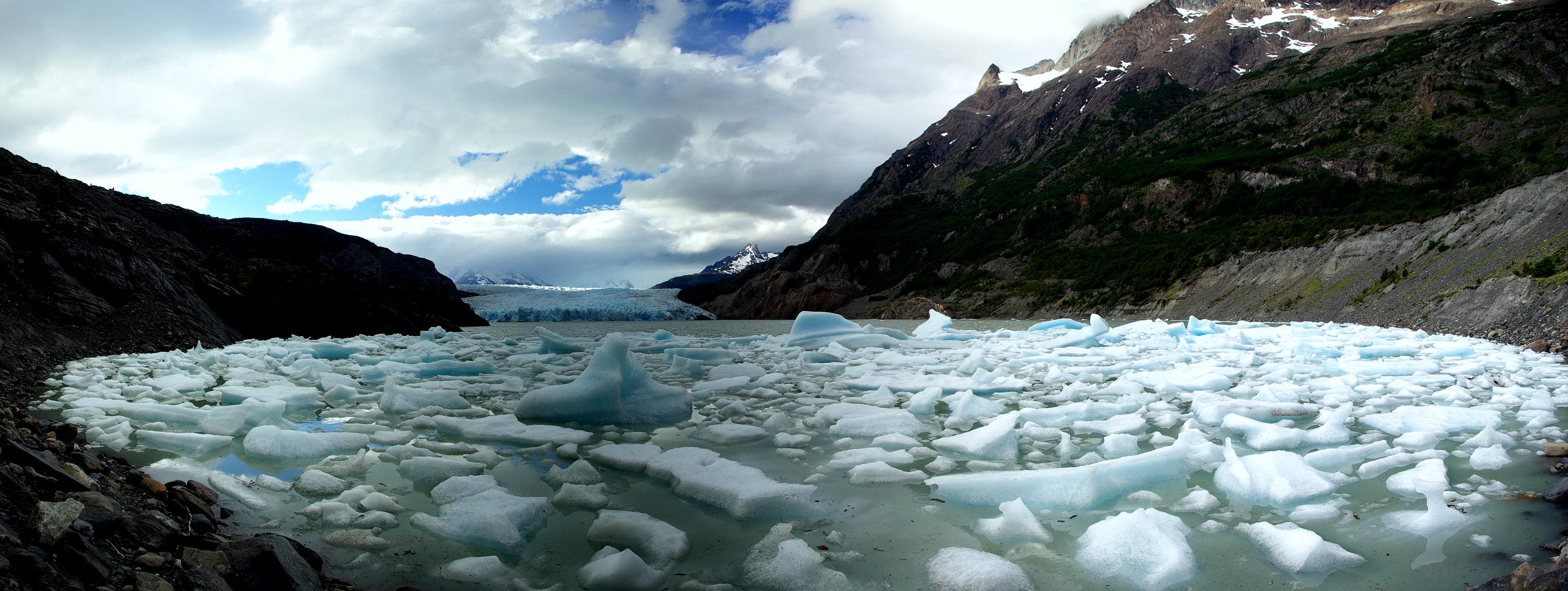 Icebergs calved by Grey Glacier, in Torres del Paine National Park. The glacier itself is seen in the background. Panorama stitched from 7 images with Autostitch.